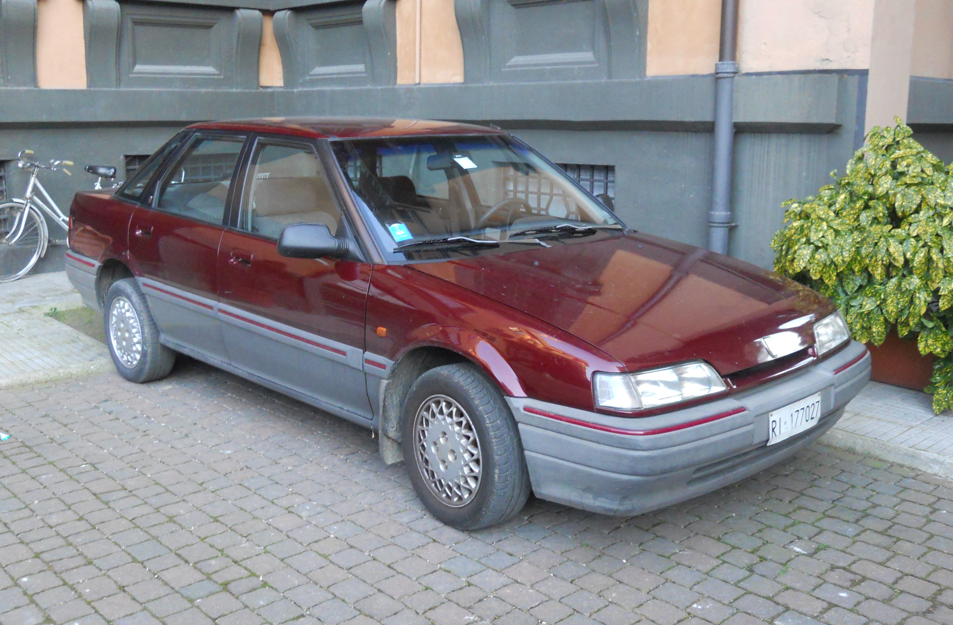 A Rover 416 GSi mk1 in Rieti, Italy. Registred in November 1992 in Lazio; it uses a 1590 cc, 82 KW, Euro 0 petrol engine.